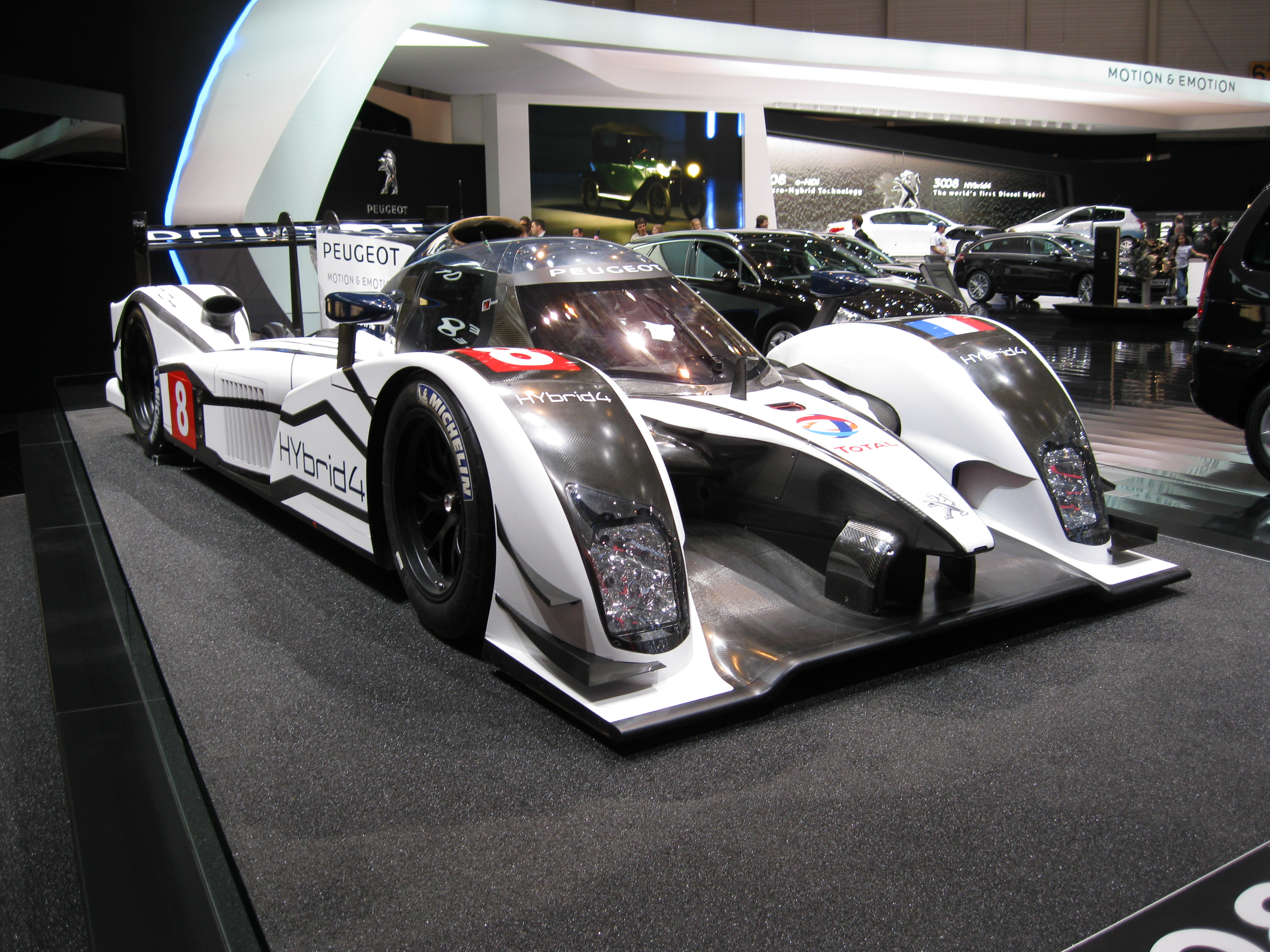 A Peugeot 908 Hybrid4 exposed at the Geneva Motor Show in 2011.